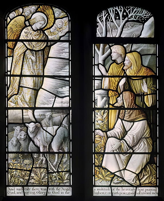 Stained-glass window in Christ Church, Over Wyresdale, Lancashire. It was produced by the firm of Shrigley and Hunt from a design by Carl Almquist (1848-1924).